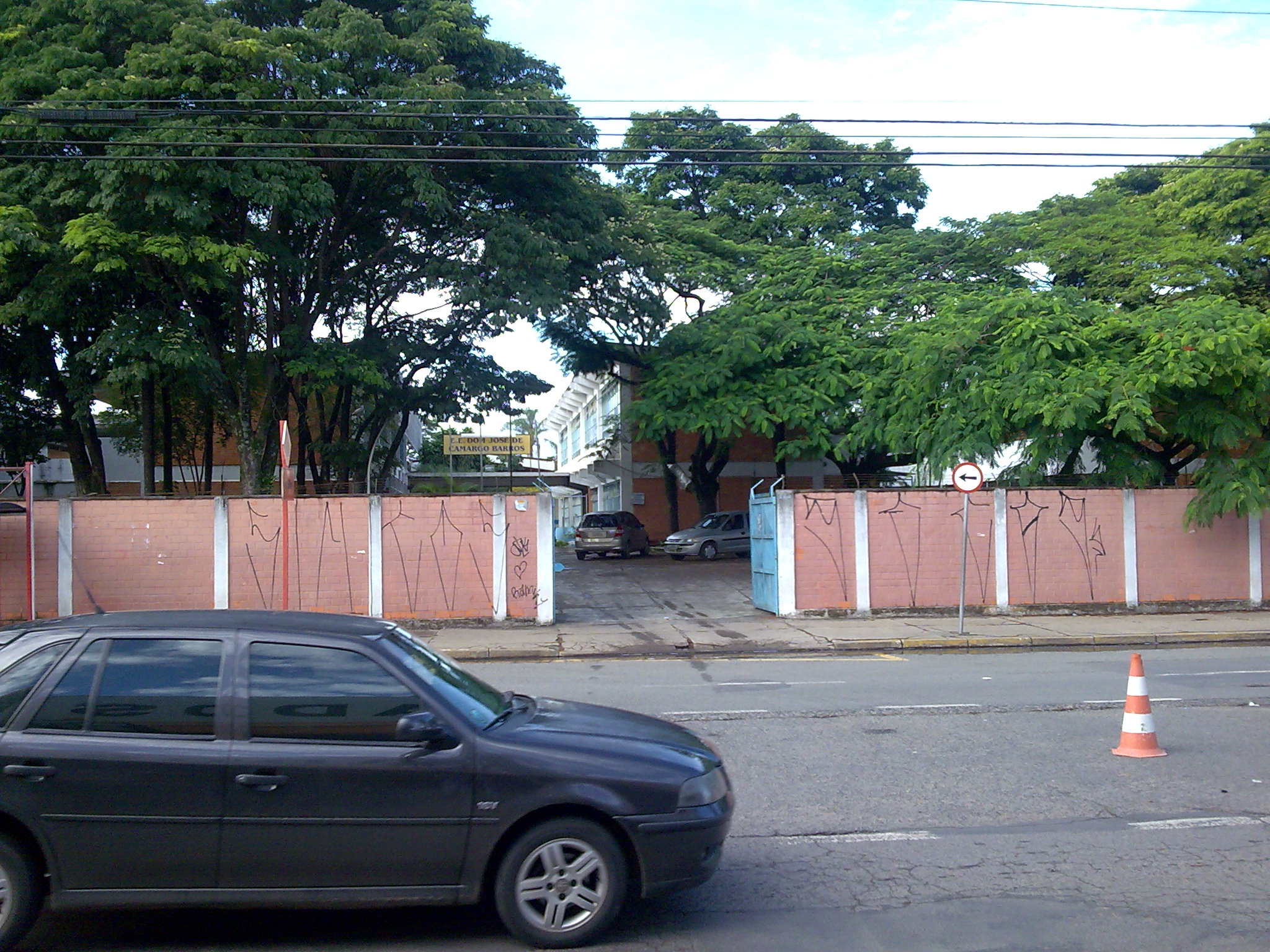 ESCOLA ESTADUAL DOM JOSÉ DE CAMARGO BARROS - INDAIATUBA